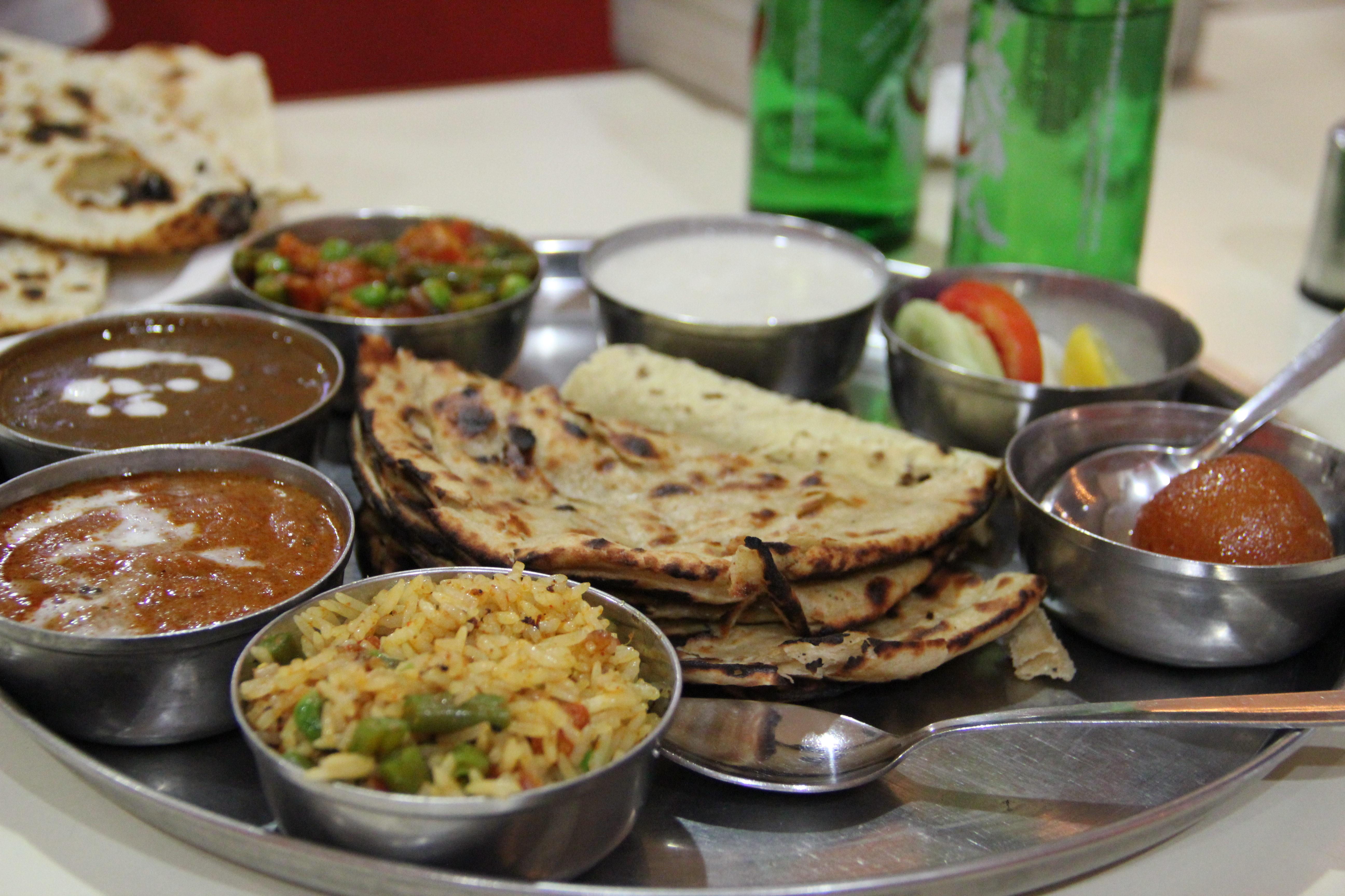 In many parts of India, a meal is served as a collage of various dishes. It typically includes rice and/or bread, veggies, sour and sweet soups/chutney, yoghurt/curd dish and other items. The simplest thali may be just bread and daal, or rice and daal with chutney, while others may have 3, 4, 5, or even 10+ items. The separate flavors and dishes may be served in individual separate metal containers (katori), or without such containers.